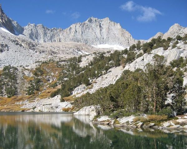 Mount Darwin, Kings Canyon National Park, Sierra Nevada, viewed from Midnight Lake.